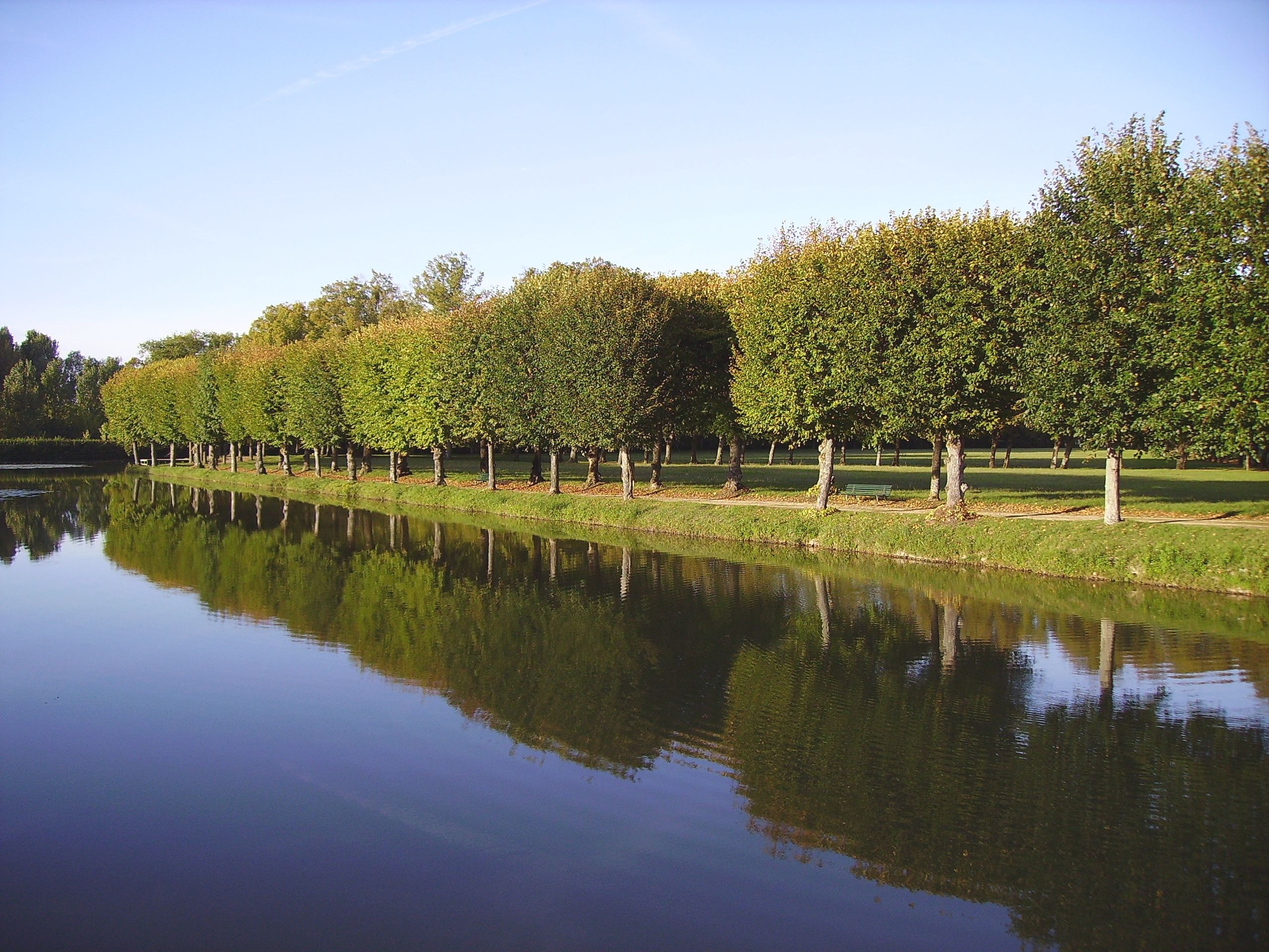 Château de La Motte-Tilly — Baroque garden (jardin à la française), with canal pond. In the Champagne-Ardenne region of France.